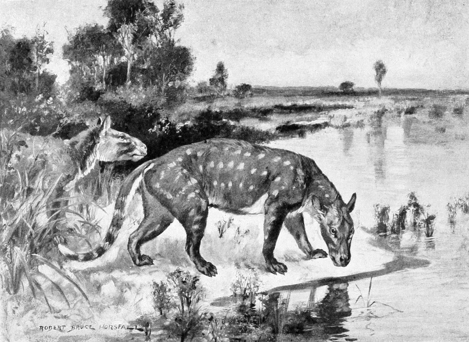 Life restoration of Agriochoerus antiquus from W.B. Scott's (1858–1947) A History of Land Mammals in the Western Hemisphere. New York: The Macmillan Company.